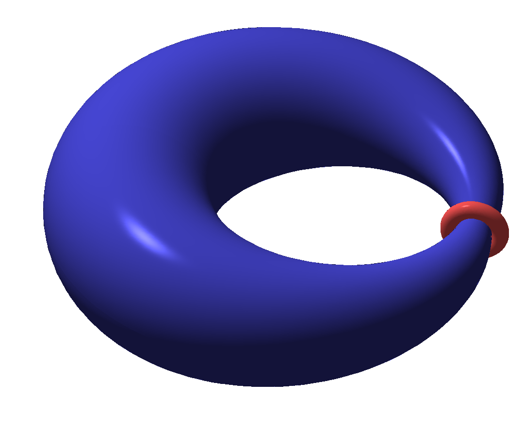 A torus with varying tube radius with another torus indicating the smallest radius of the tube.